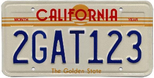 A 2GAT123 California license plate on a 1982-1987 "Golden State" base